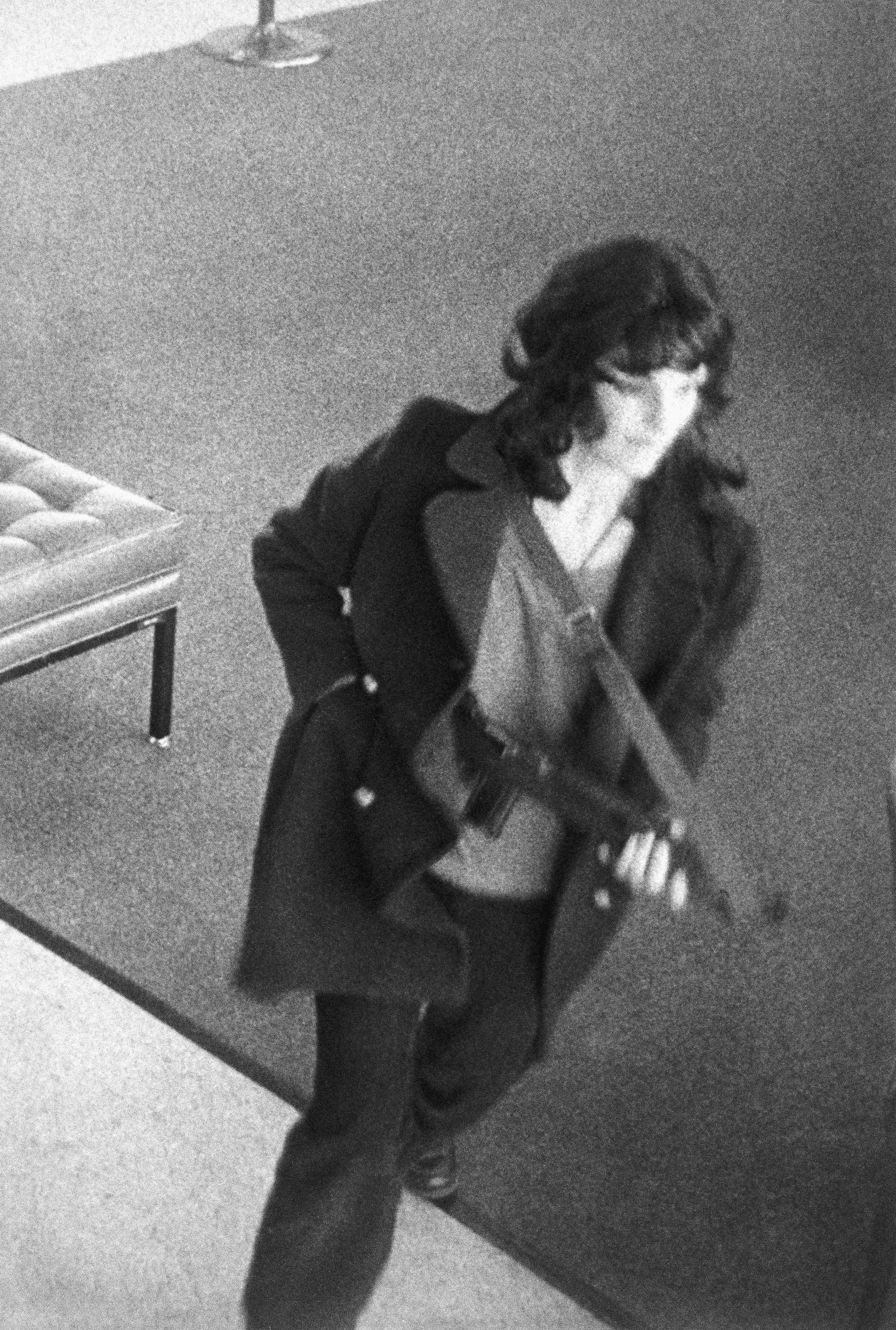 Patty Hearst, during the April 1974 Hibernia bank robbery.